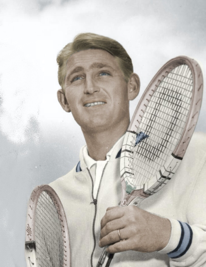 Lew Hoad at the 1954 Davis Cup challenge round match against the USA at White City, Sydney.